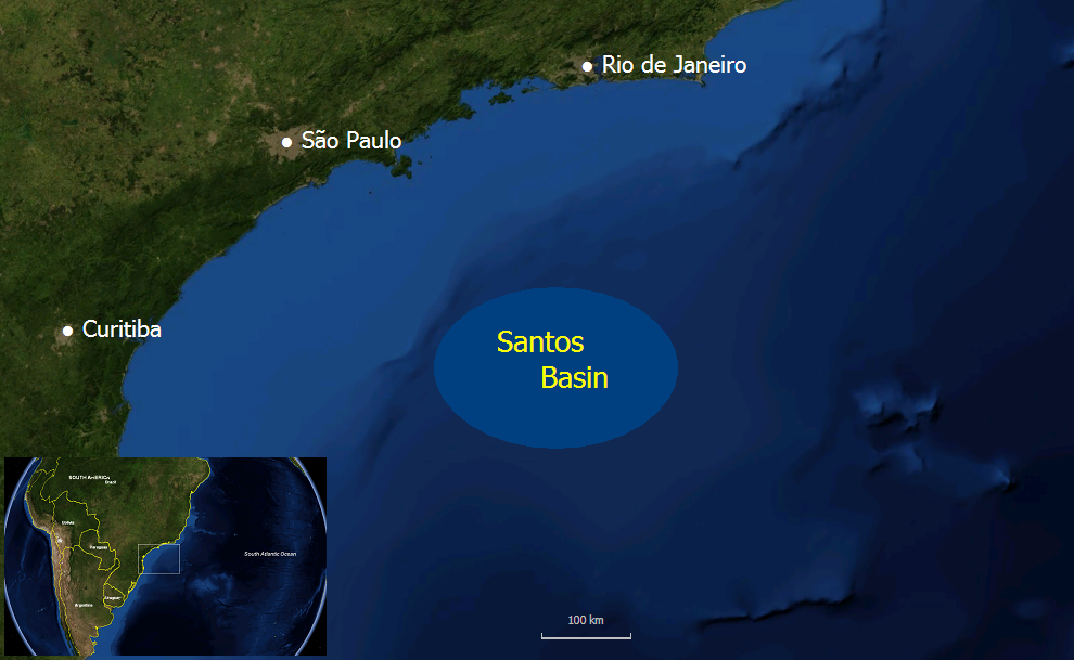 Map of the Santos Basin oil producing region off the coast of Brazil